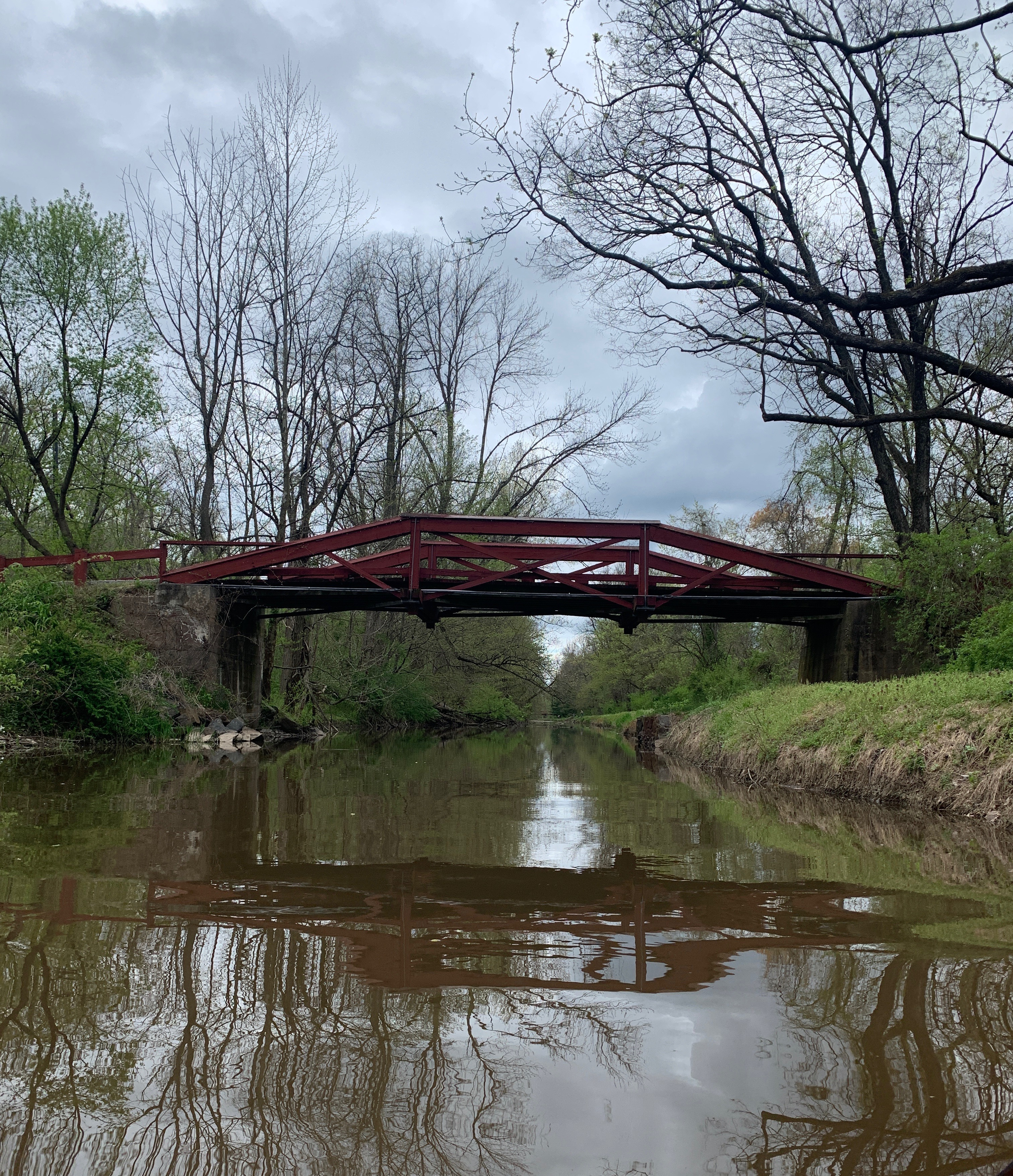 A traditional camelback bridge spanning the Pennsylvania Canal (Delaware Division) taken from the canal.